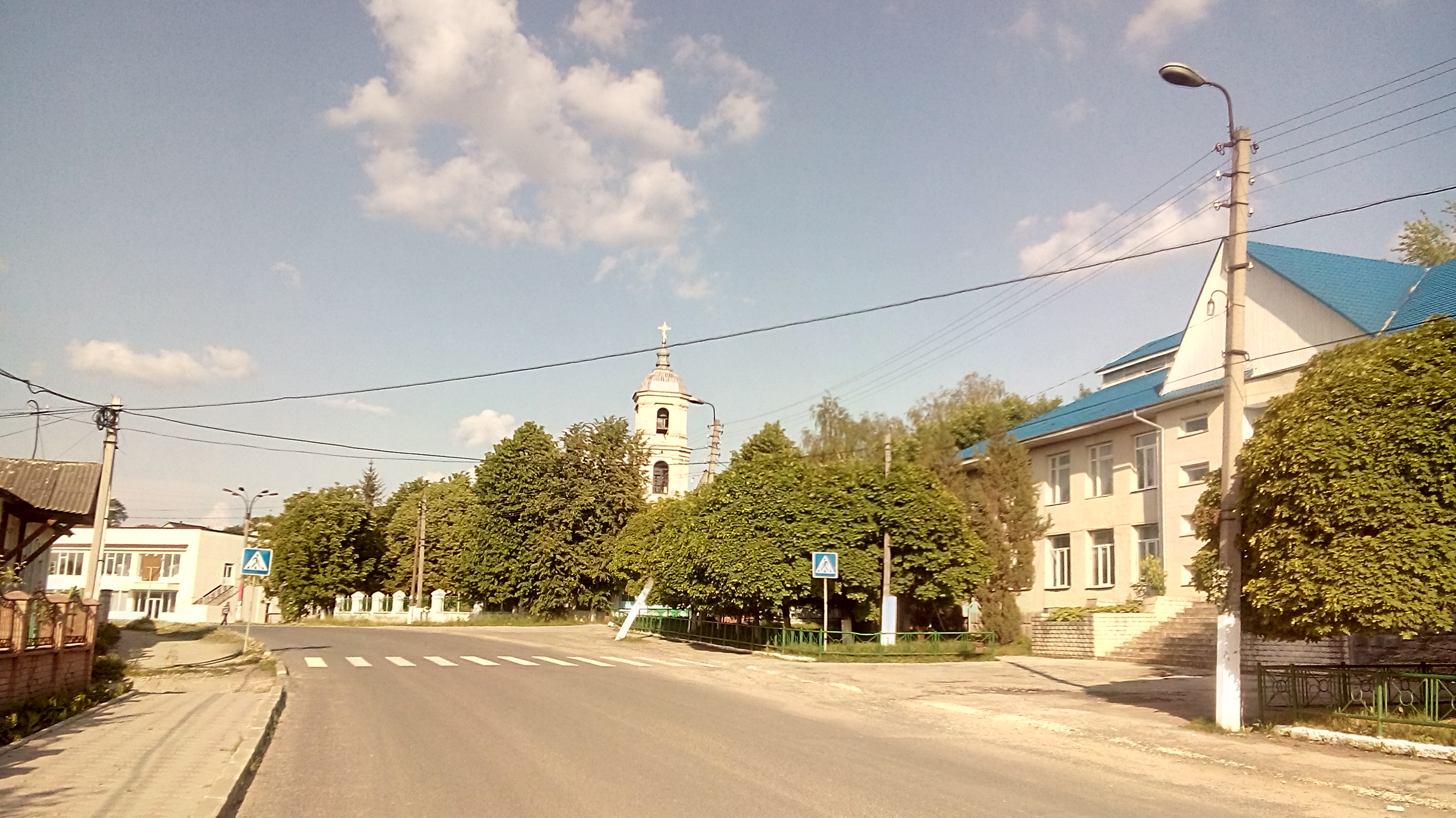 Downtown of Vorniceni village, Strășeni district